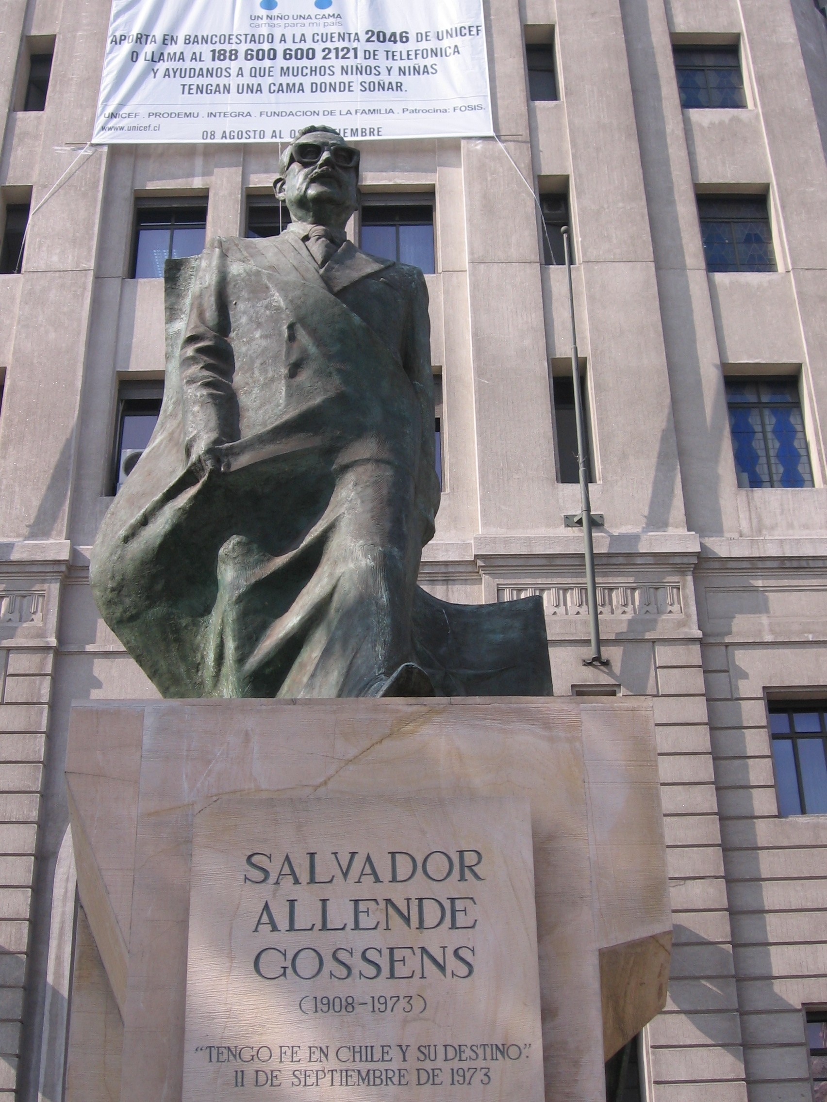 Statue of Salvador Allende in front of the Palacio de la Moneda.